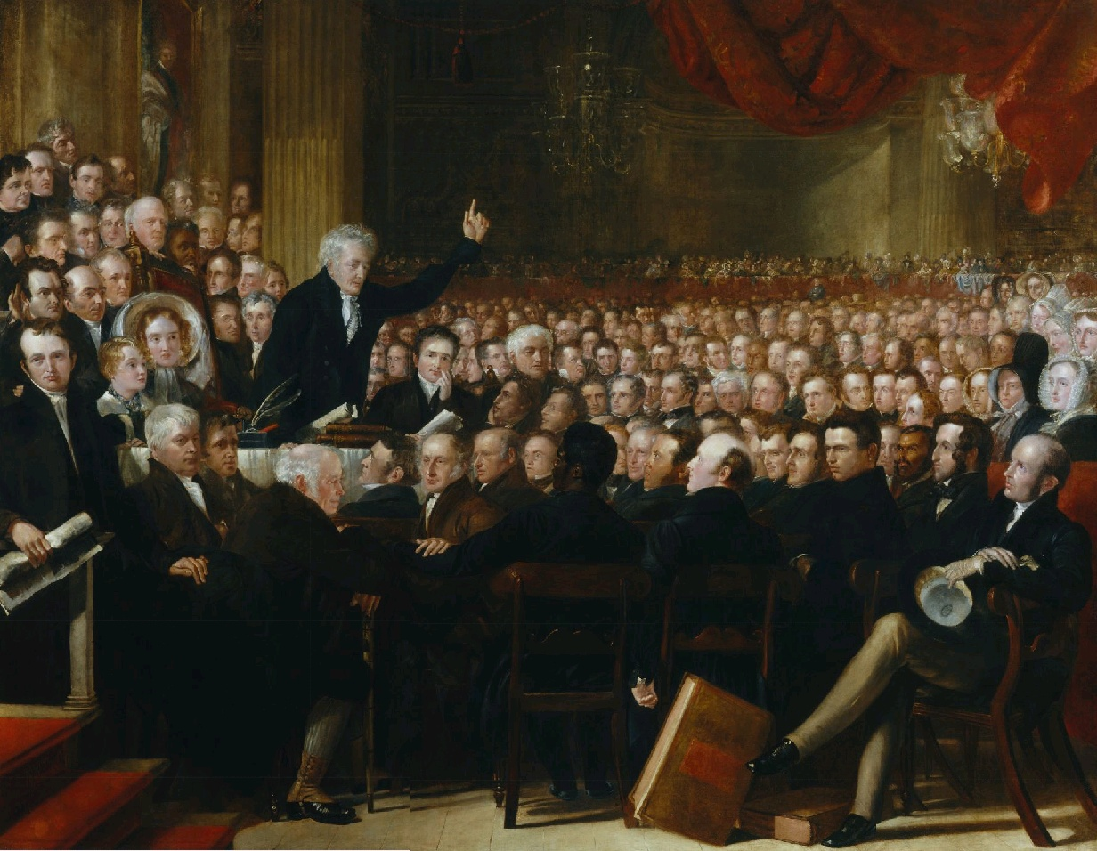 left to right:w:British and Foreign Anti-Slavery Society in 1840. Note this is a miniature from a much larger painting. People in the painting include: Prof. William Adam, George William Alexander (Treasurer), William Allen, Saxe Bannister (Australian), Rev. Thomas Binney, James G. Birney U.S. delegate, Samuel Bowly, Sir John Bowring, Rev. William Brock, Sir Thomas Buxton M.P., Thomas Clarkson (key speaker), Josiah Conder, Daniel O'Connell (Irish), John Ellis, Josiah Forster, Robert Kaye Greville, William Forster, Elizabeth Fry, Samuel Gurney, John Howard Hinton, John Angell James, Rev. Joseph Ketley (Guyana), Dr. Stephen Lushington M.P., Dr. Richard Robert Madden, James Mott (American), Lucretia Mott (American), Dr. Murch, Amelia Opie, Wendell Phillips, John Scoble, Joseph Sturge (founder), George Thompson and Sir John Eardley-Wilmot M.P.